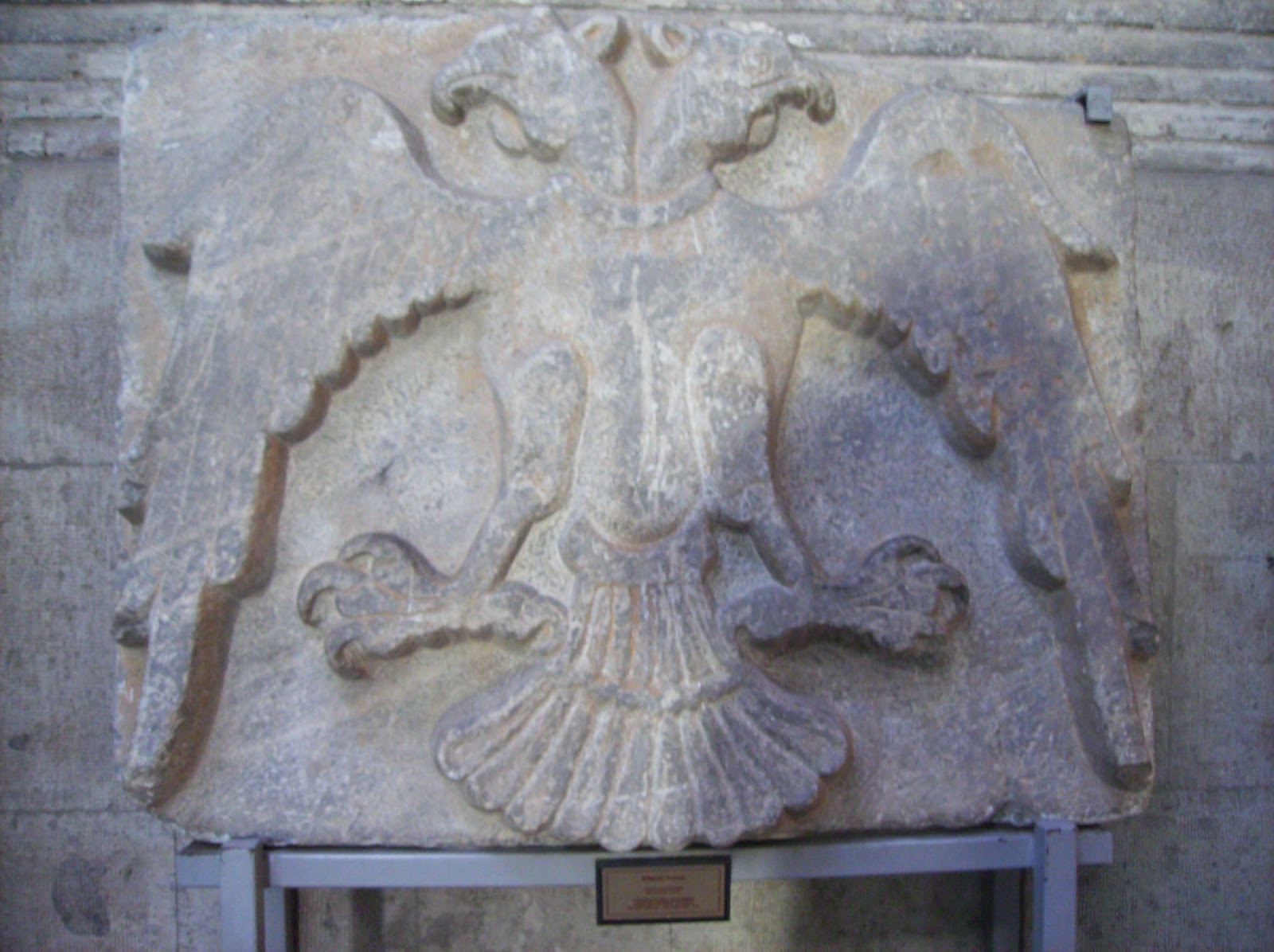 Konya-Turkey (Chift Bashly Qartal) Symbol of Oghuzes